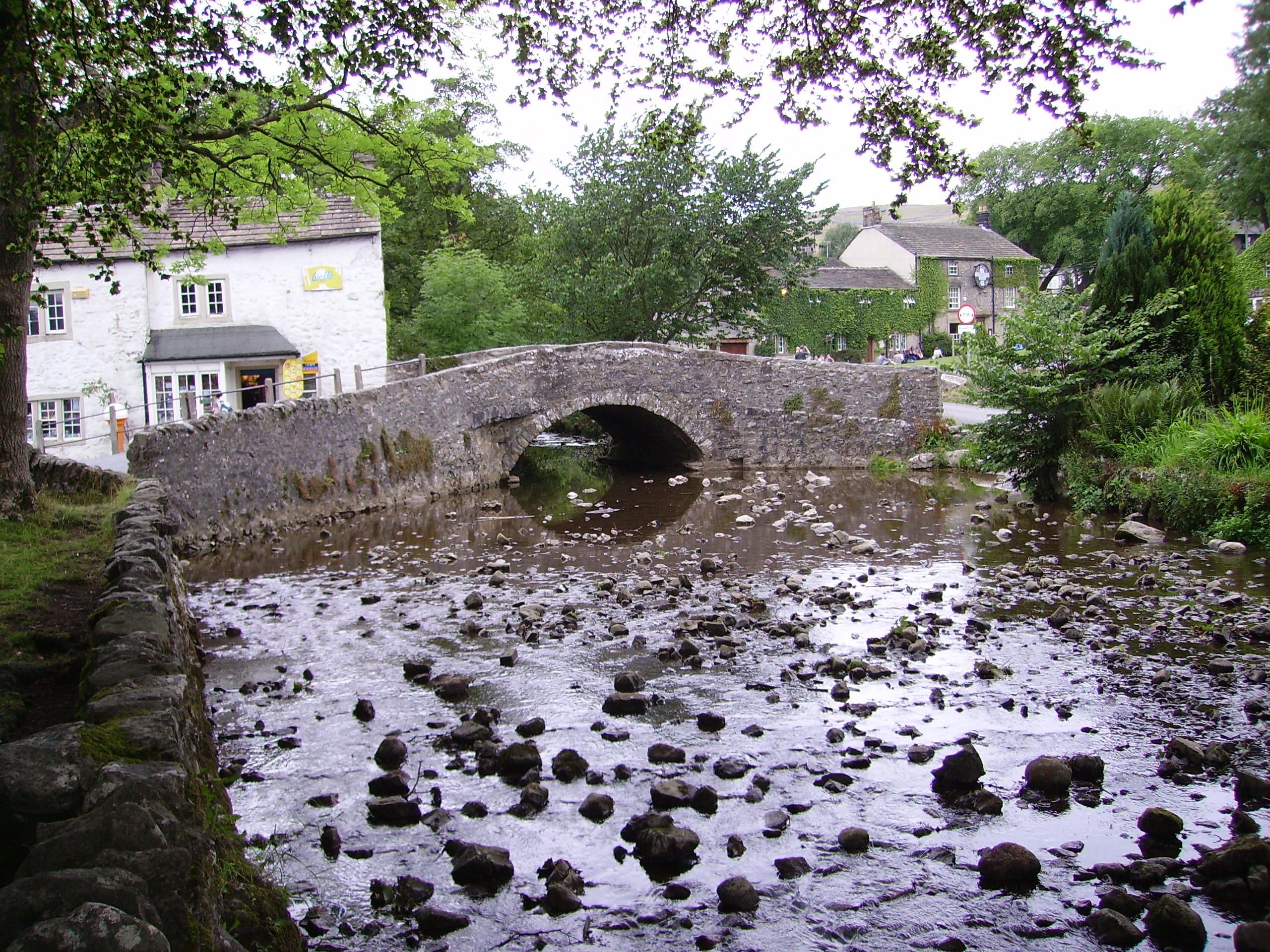 view of Malham in the Yorkshire Dales, United Kingdom